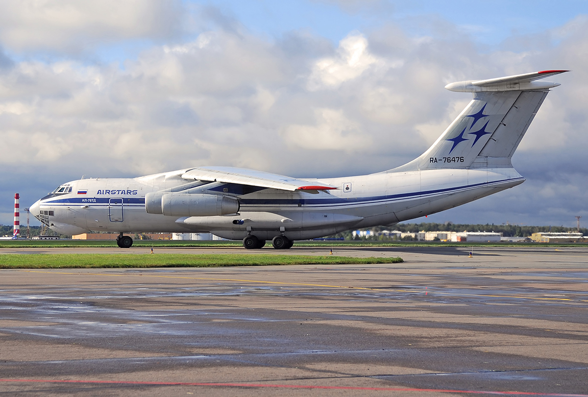 "Airstars"Il-76 RA-76476